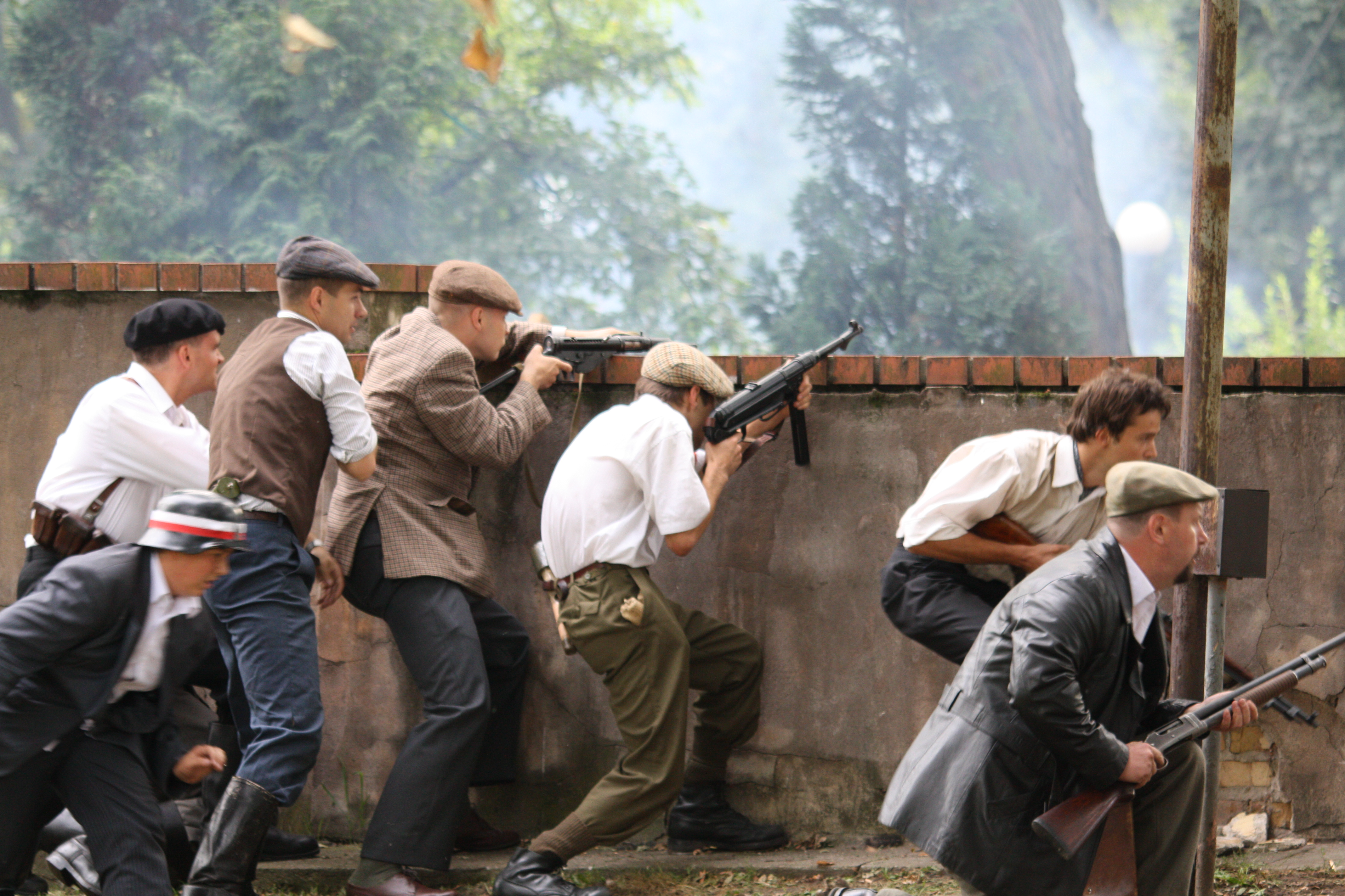 Warsaw Uprising reenactments - Mokotów'44